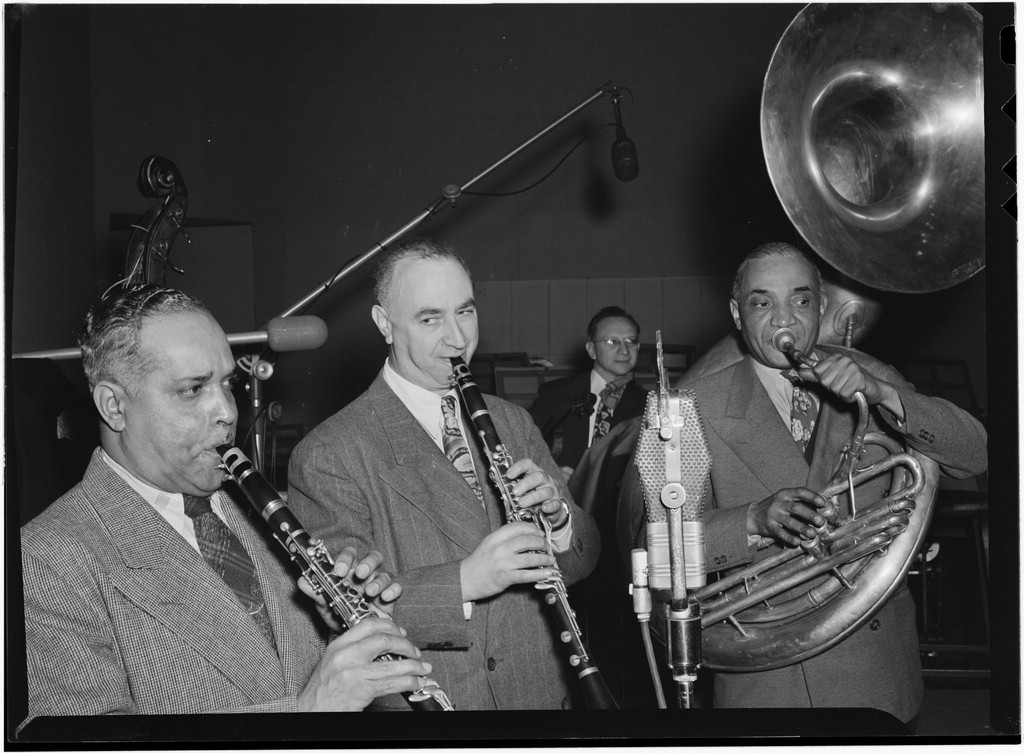 Gottlieb, William P., 1917-, photographer. [Portrait of Mezz Mezzrow, Albert Nicholas, and Sy Sinclair, New York, N.Y., ca. Jan. 1947] 1 negative : b&w ; 3 1/4 x 4 1/4 in. Caption from Down Beat: Some fine dixieland tootin' was done at the "This is Jazz" bash here last month with, lining up left to right: Albert Nicholas, Mezz Mezzrow and Sy Sinclair. Notes: Gottlieb Collection Assignment No. 228 Reference print available in Music Division, Library of Congress. Purchase William P. Gottlieb Forms part of: William P. Gottlieb Collection (Library of Congress). In: "Bash features old-timers," Down Beat, v. 14, no. 5 (Feb. 26, 1947), p. 12. Subjects: Nicholas, Albert, 1900 Mezzrow, Mezz, 1899-1972 Sinclair, Sy Jazz musicians--1940-1950. Clarinetists--1940-1950. Tubists--1940-1950. Format: Portrait photographs--1940-1950. Group portraits--1940-1950. Film negatives--1940-1950. Rights Info: Mr. Gottlieb has dedicated these works to the public domain, but rights of privacy and publicity may apply. Repository: (negative) Library of Congress, Prints & Photographs Division, Washington D.C. 20540 USA, (reference print) Library of Congress, Music Division, Washington D.C. 20540 USA, Part Of: William P. Gottlieb Collection (DLC) 99-401005 General information about the Gottlieb Collection is available at Persistent URL: Call Number: LC-GLB13- 0616 This work is from the William P. Gottlieb collection at the Library of Congress. Rights and restrictions.In accordance with the wishes of William Gottlieb, the photographs in this collection entered into the public domain on February 16, 2010.